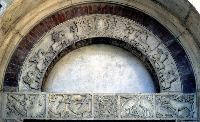 Porto Pescheria, Modena Cathedral, Italy